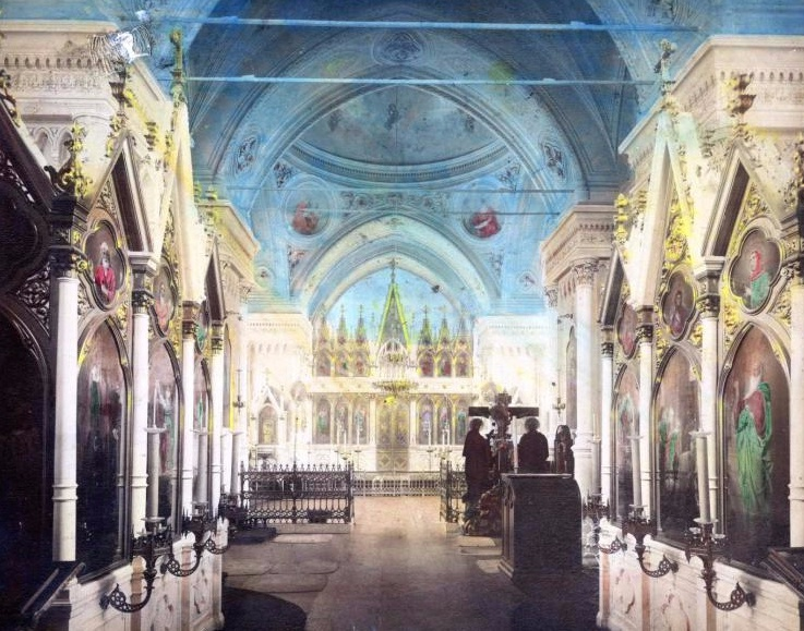 Saint Catherine Church (Ascension Convent) - interior